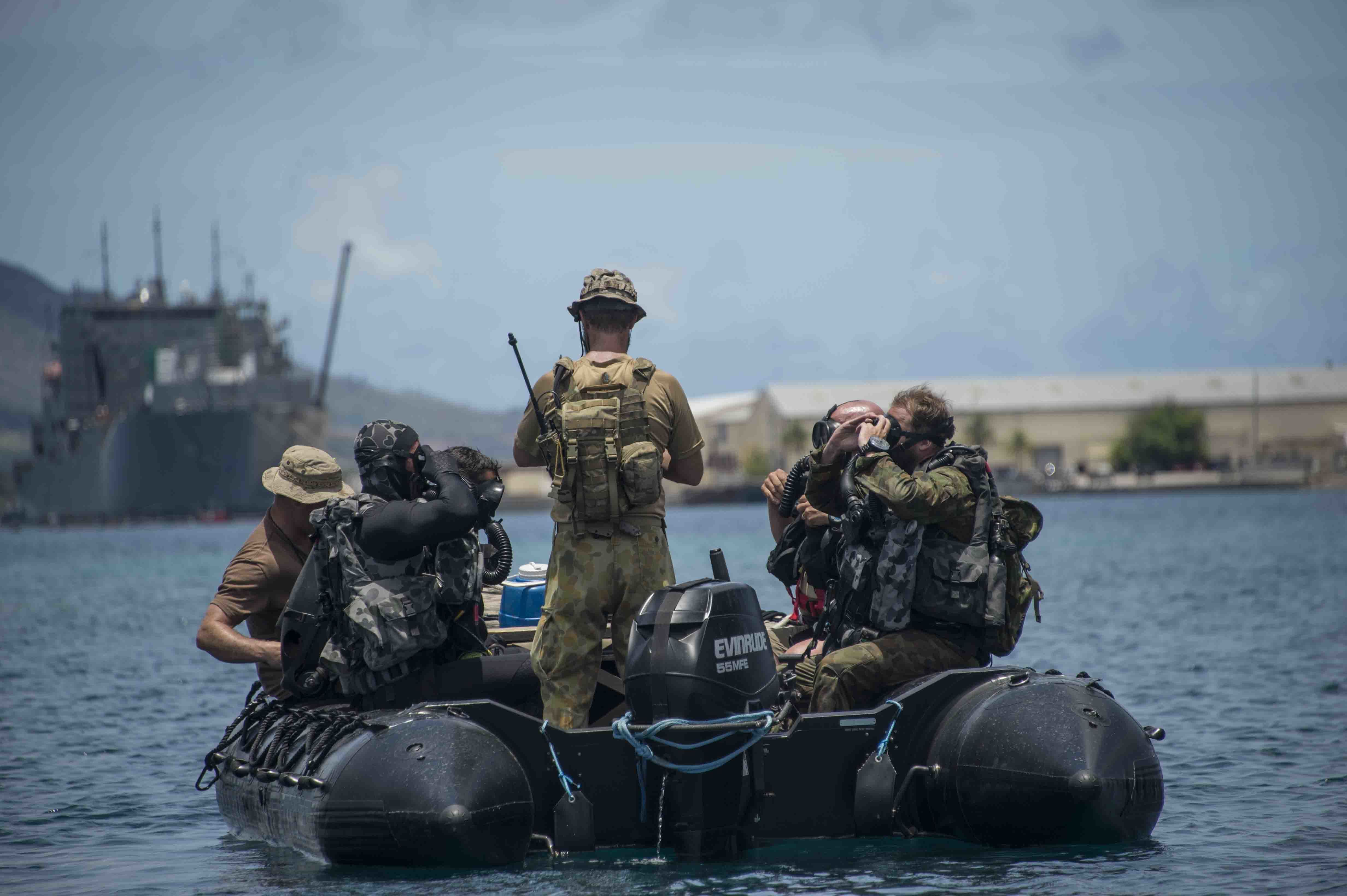 Explosive Ordnance Disposal (EOD) technicians, assigned to various EOD units prepare to enter the water during a Very Shallow Water (VSW) scenario as part of Exercise Tricrab on Naval Base Guam, May 17, 2016. Tricrab is a combined exercise involving military forces from five different countries that focuses on strengthening relationships within the Asia-Pacific region through training and information exchanges, to enhance EOD and diving related interoperability. (U.S. Navy Combat Camera photo by Mass Communication Specialist 3rd Class Alfred A. Coffield/Released)